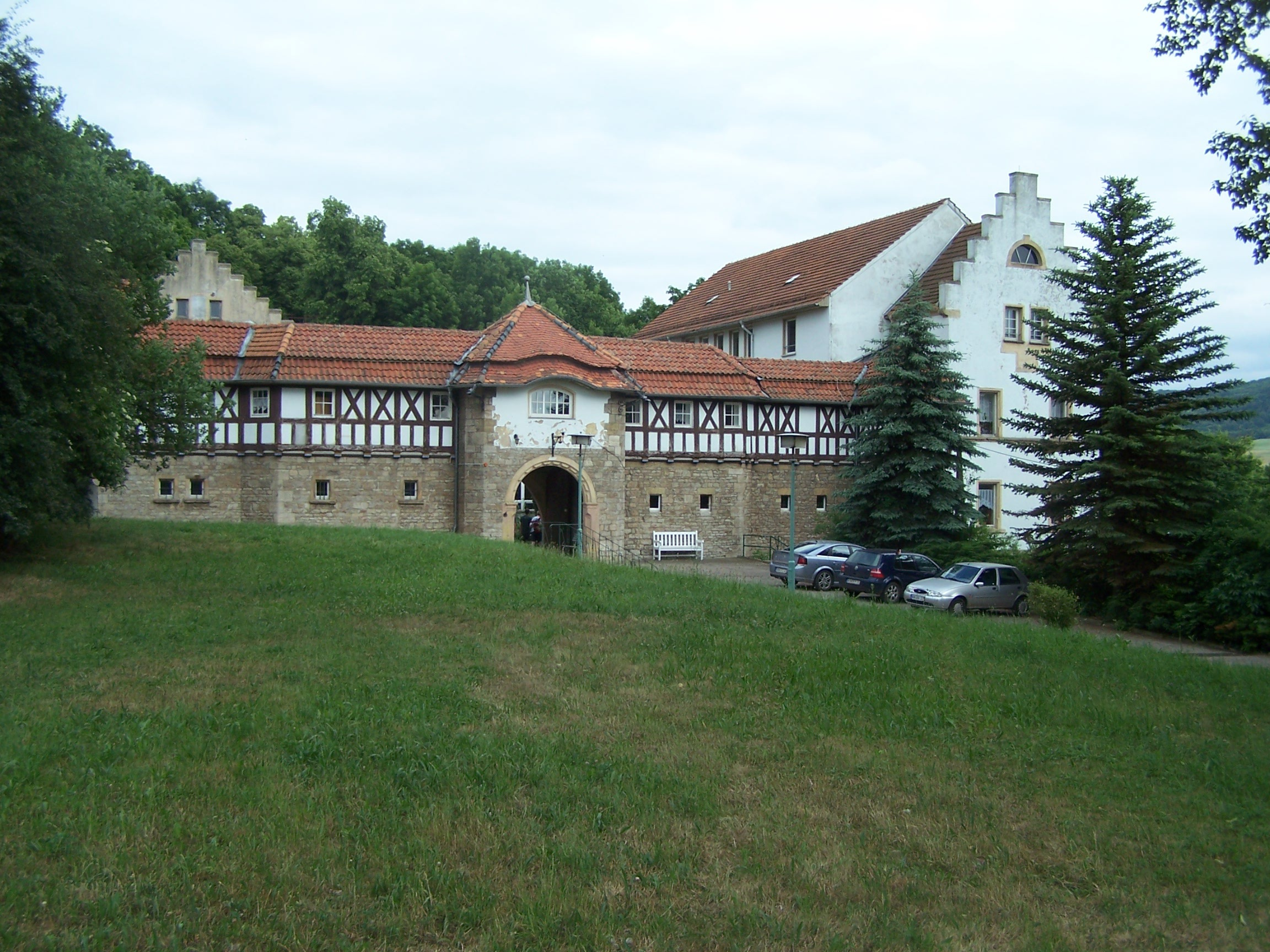 The castle Neuscharfenberg at Wenigenlupnitz.